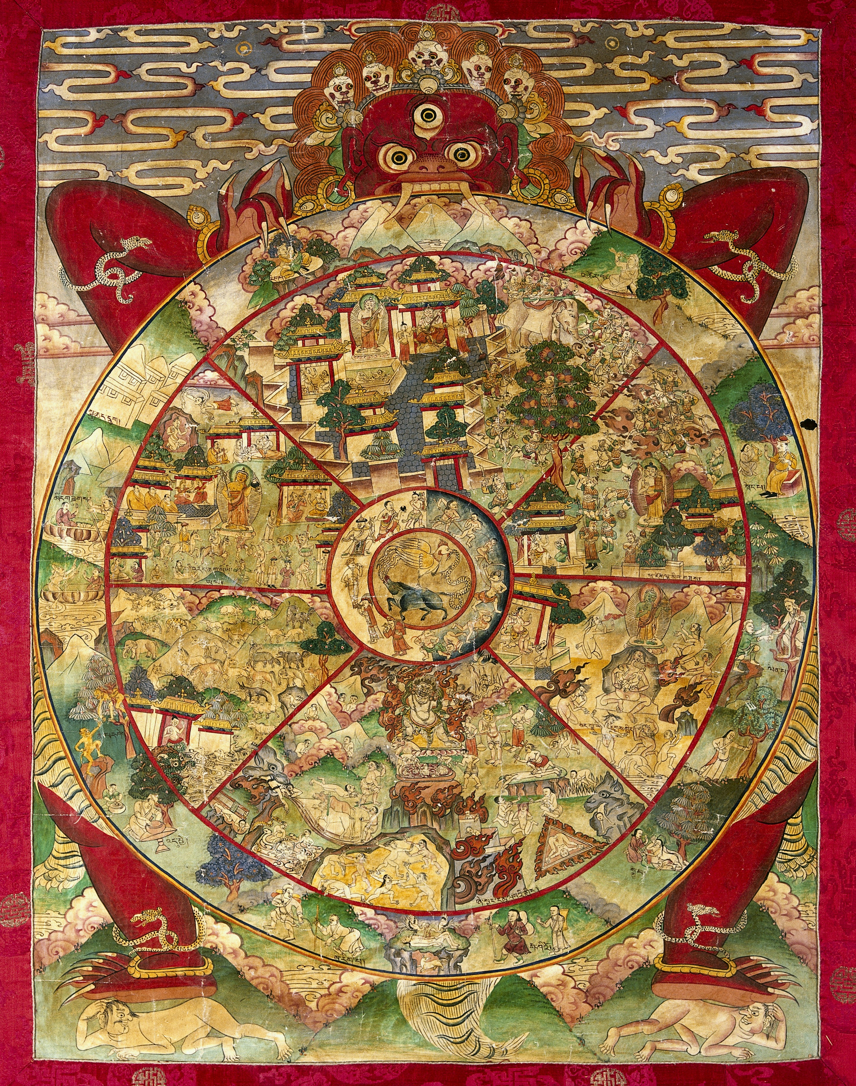 Yama, the Lord of Death, holding the Wheel of Life which represents Samsara, or the world on a Tibetan Thangka. In the central circle is a snake chasing a pig chasing a rooster chasing the snake which represents craving, hatred and ignorance. The six sections, surrounding the central circle, show representations of the six realms - the realm of the gods, the realm of the titans, the realm of the humans, the realm of the animals, the realm of the hungry ghosts and the realm of the demons. Iconographic Collections Keywords: Rebirth; Animals; Tibet; Symbol; Allergy; Demon; Religion; Buddhism; China; Karma; Animal